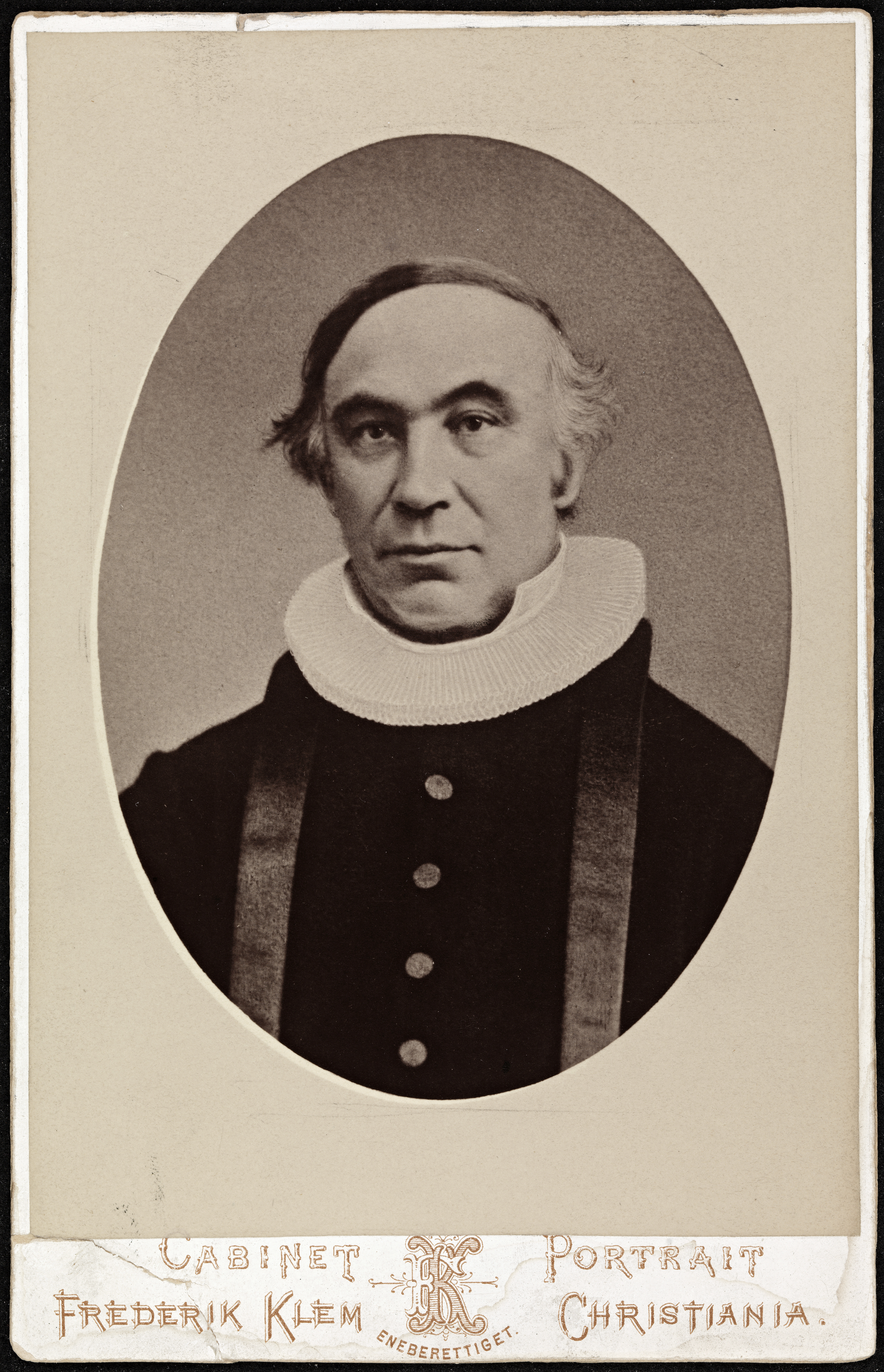 Beskrivelse / Description: Jørgen Moe var forfatter, folkeminnesamler og geistlig. Dato / Date: ukjent / unknown Fotograf / Photographer:frederik&m_saml=&kjonn=&stikkord=&year_from=&year_to=&stedsnavn=&country_code=&fylke_code=&startid=0 Frederik Klem (sannsynligvis reprofotograf) Digital kopi av original / Digital copy of original: s/h papirpositiv på kabinettkort Eier / Owner Institution: Nasjonalbiblioteket / National Library of Norway Lenke / Link: Bildesignatur / Image Number: blds_06266